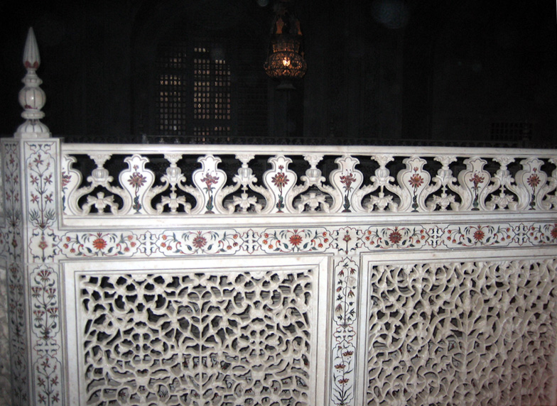 The marble and lapidary jali screen, inside of the Taj Mahal.